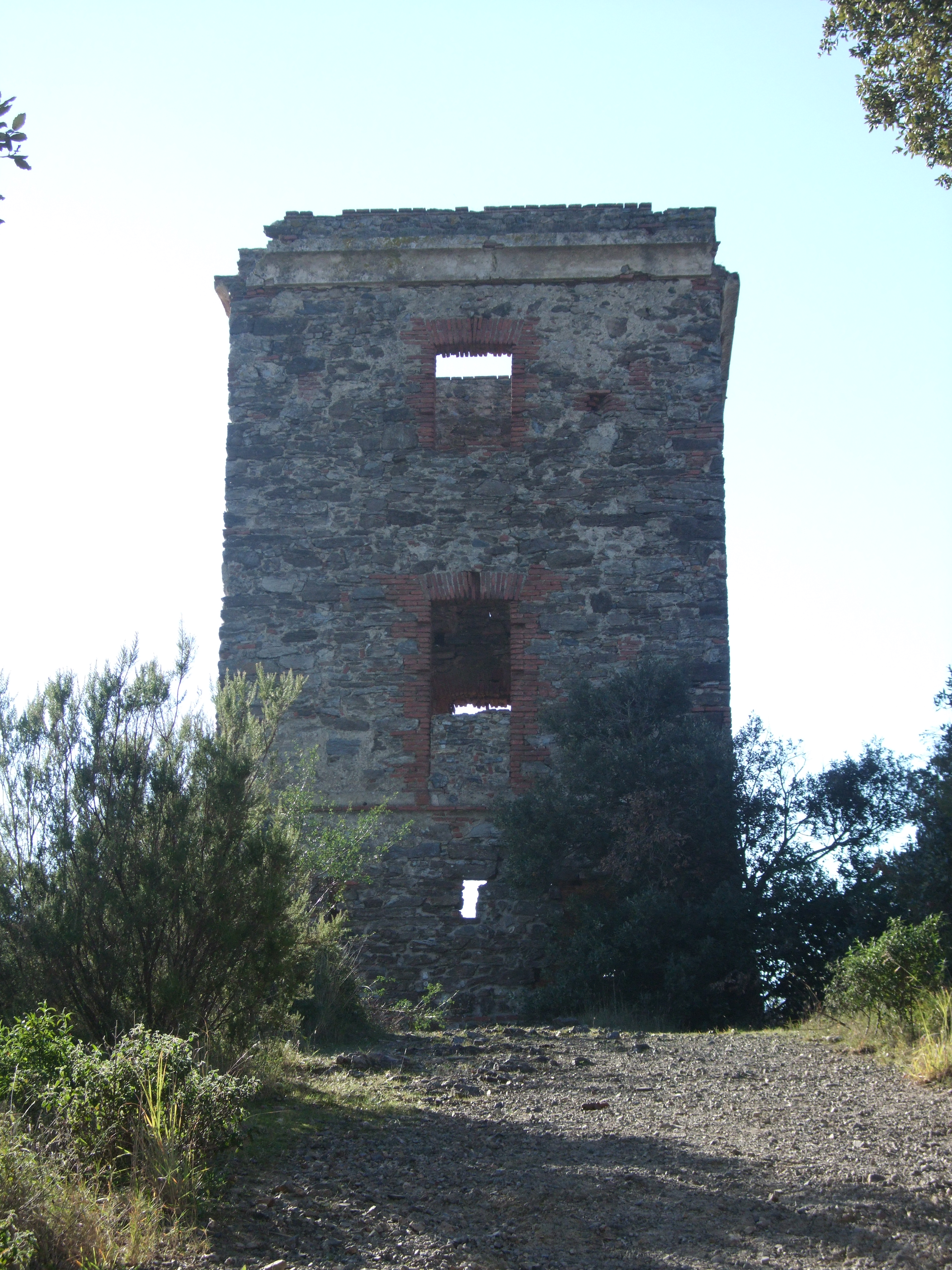 Montagut Tower, highest hilltop in Malgrat de Mar (218,2 m)